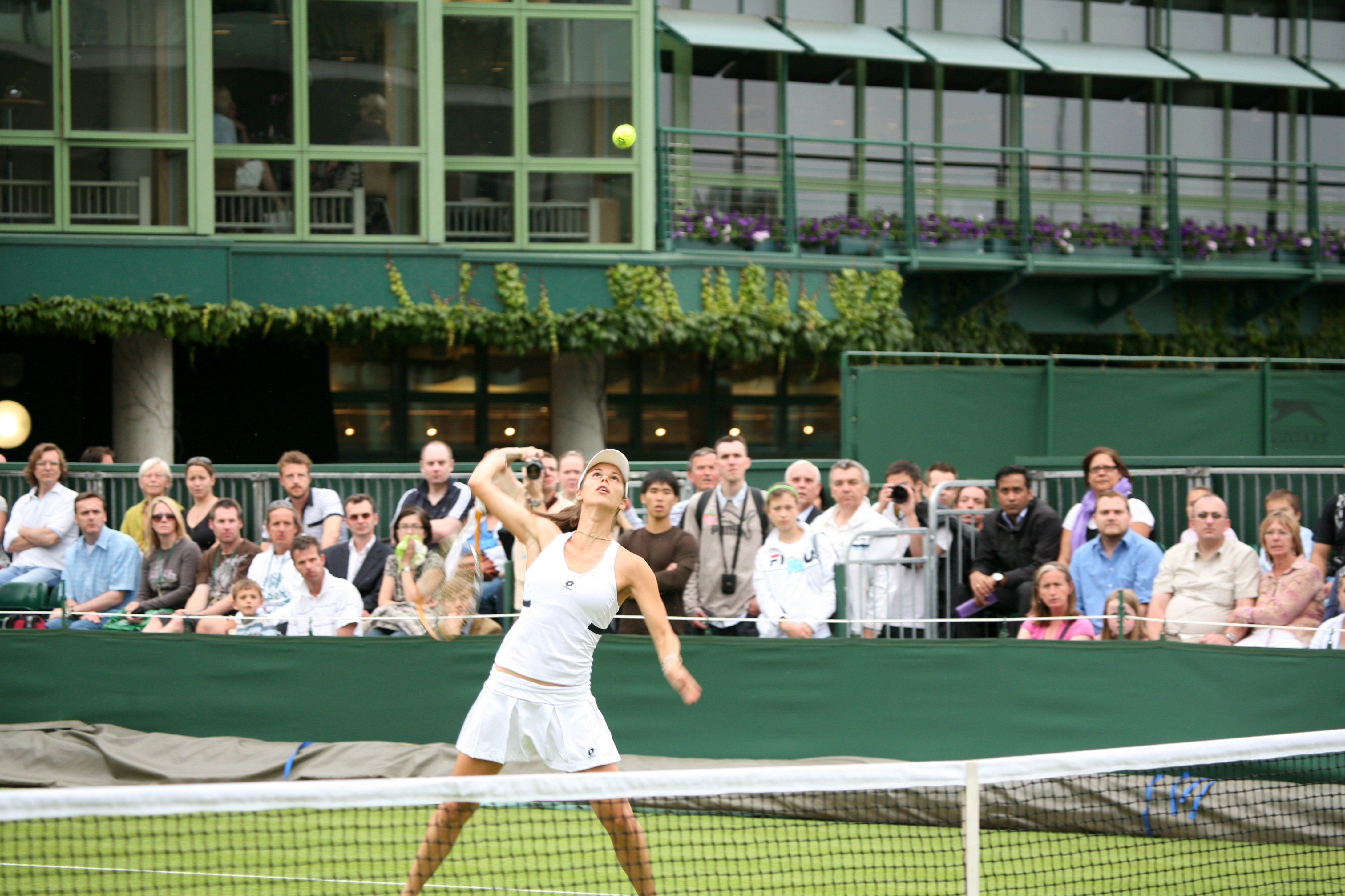 Tsvetana Pironkova against Jill Craybas in the 2009 Wimbledon Championships first round